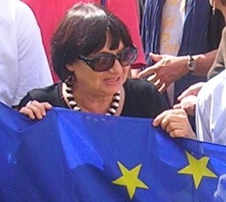 Luisa Morgantini at Bil'in's weekly non-violent protest against the Wall (Palestine).